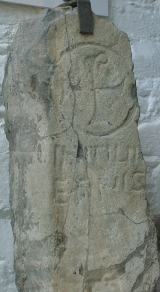 Kirkmadrine Stone III, Dumfries and Galloway, Scotland - detail